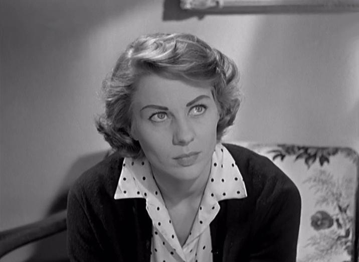 Luciana Angiolillo in a scene of the Italian film Camilla